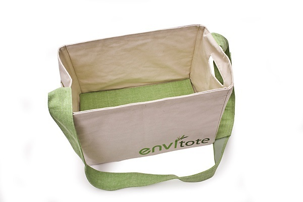 ENVITOTE’s superior design is a stylish alternative to your typical reusable bag. It is eco-friendly and made of lightweight canvas. ENVITOTE is sturdy with lots of room - 14” x 9” x 9”. The adjustable strap and side handles allow for easy loading and unloading. It is collapsible for easy storage. The removable cardstock stiffeners add support, preventing items from being crushed. ENVITOTE is washable, sanitary and durable enough for multiple purposes.